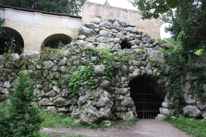 Lednice na Moravě, Czech republic, english park